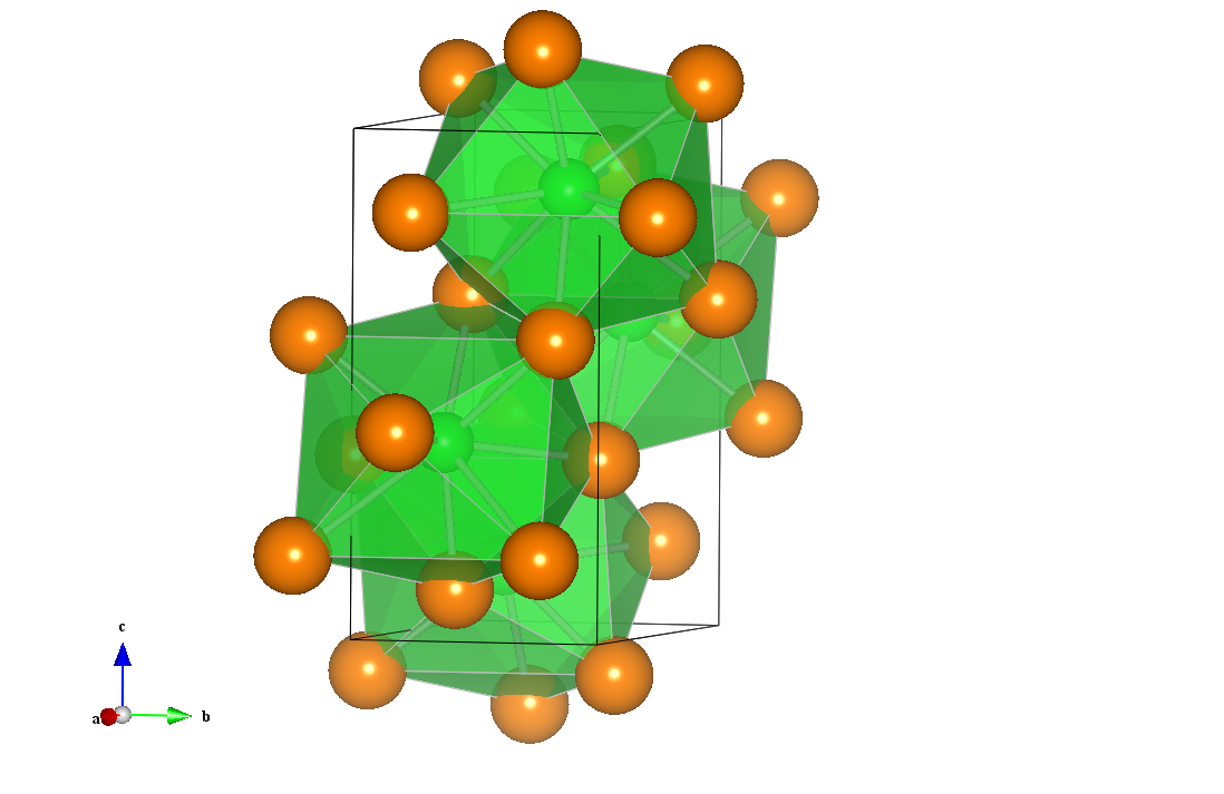 BaCl2 crystal structure, polyhedral view drawn using VESTA K. Momma and F. Izumi, "VESTA: a three-dimensional visualization system for electronic and structural analysis." J. Appl. Crystallogr., 41:653-658, 2008.